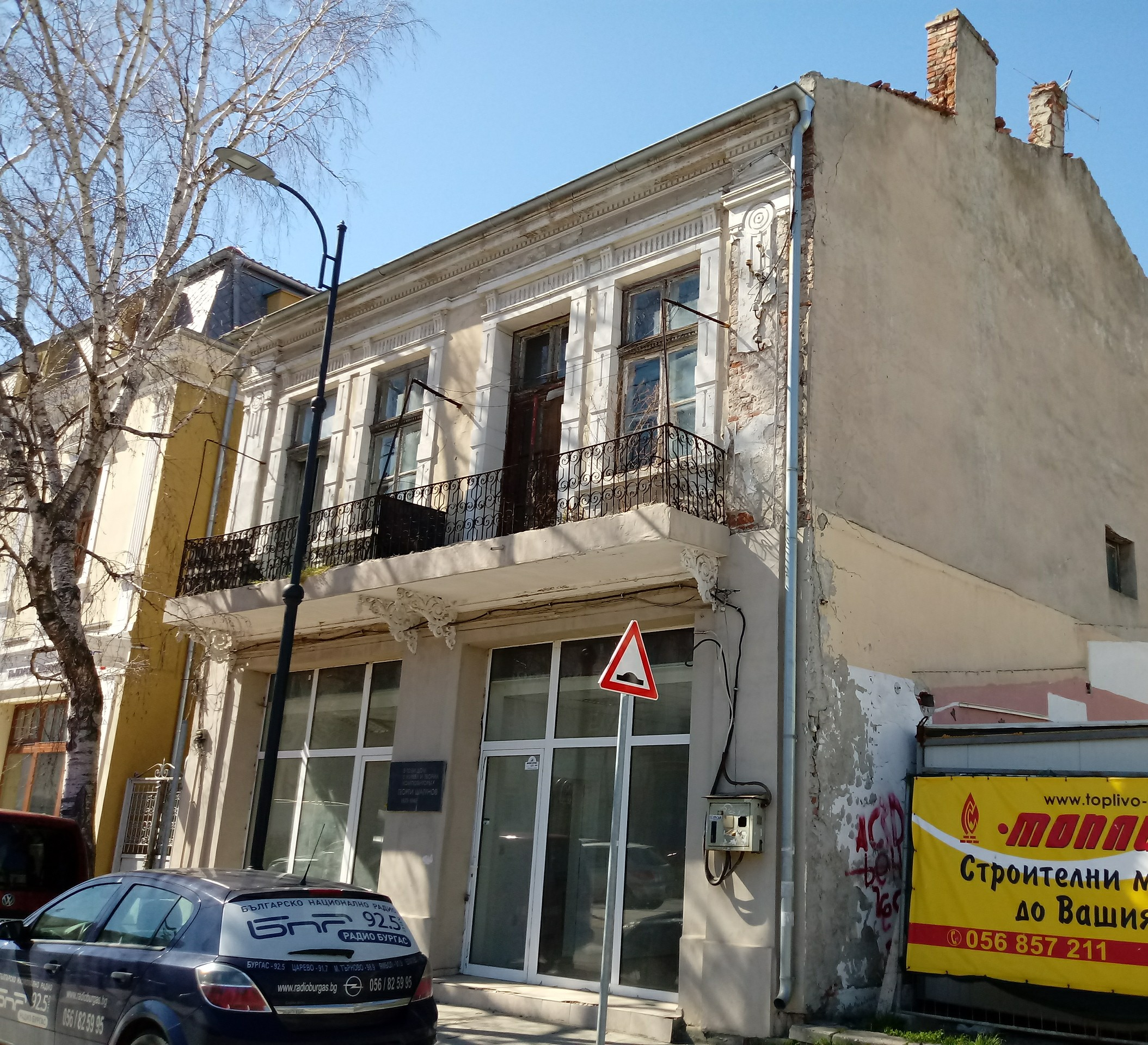 Georgi Shagunov home with memorial plaque, 2 Filip Kutev Str., Burgas